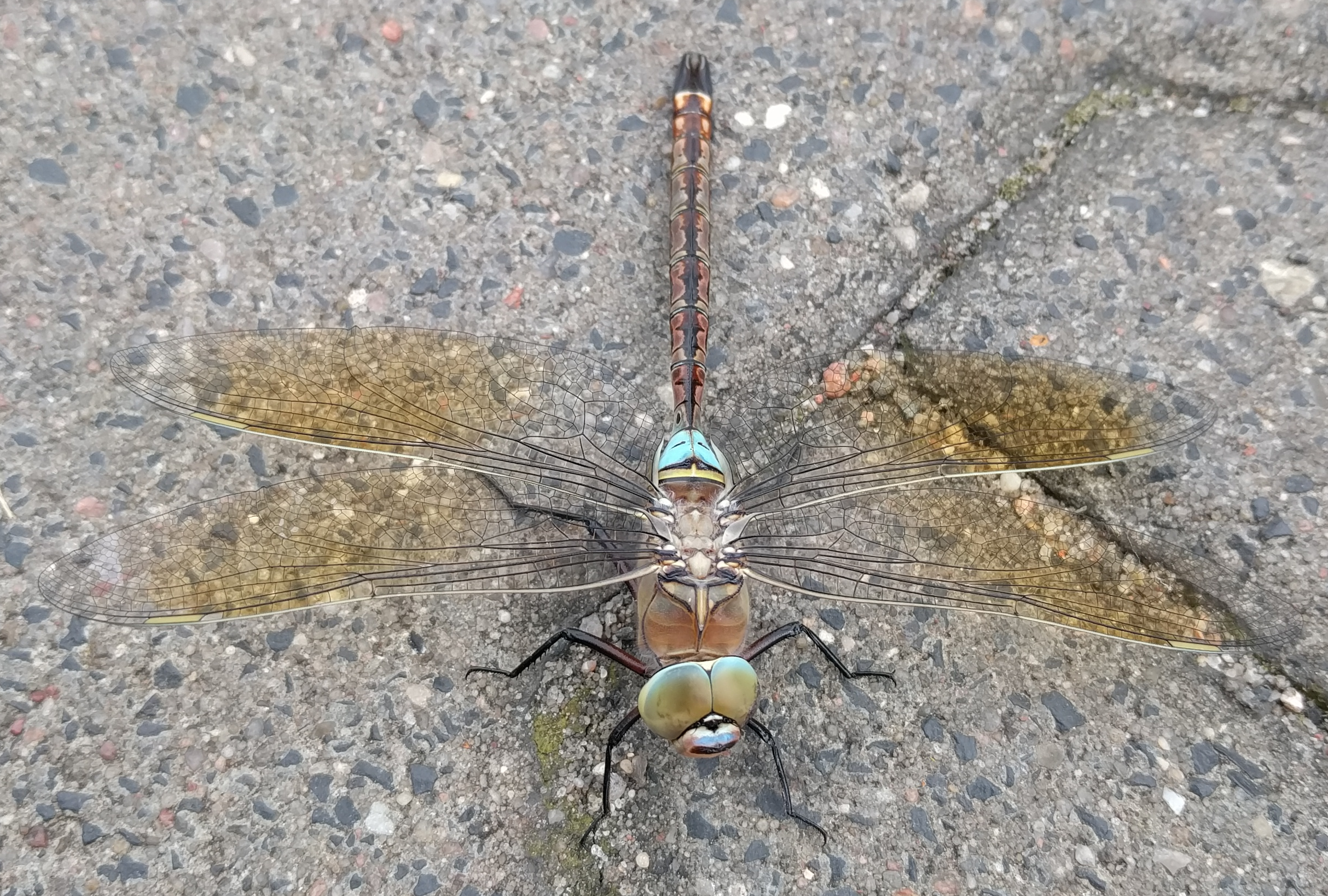 Anax Parthenope, lesser emperor, dragonfly